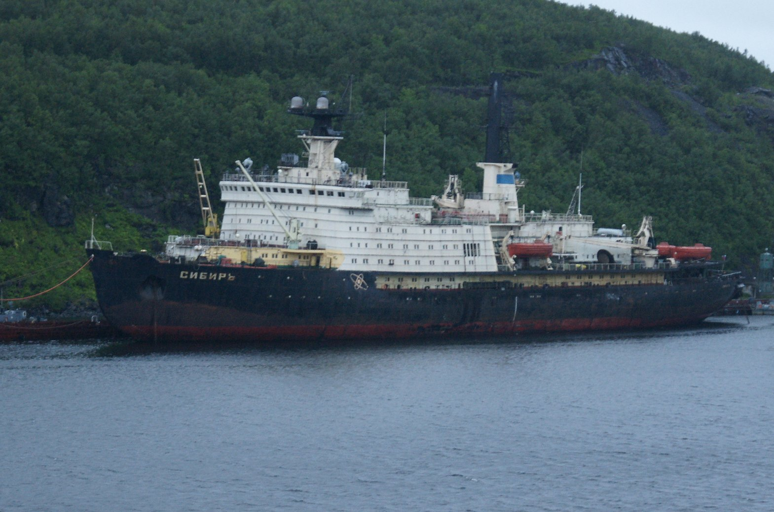 Nuclear i/b "Sibir" in Murmansk (July 2012)